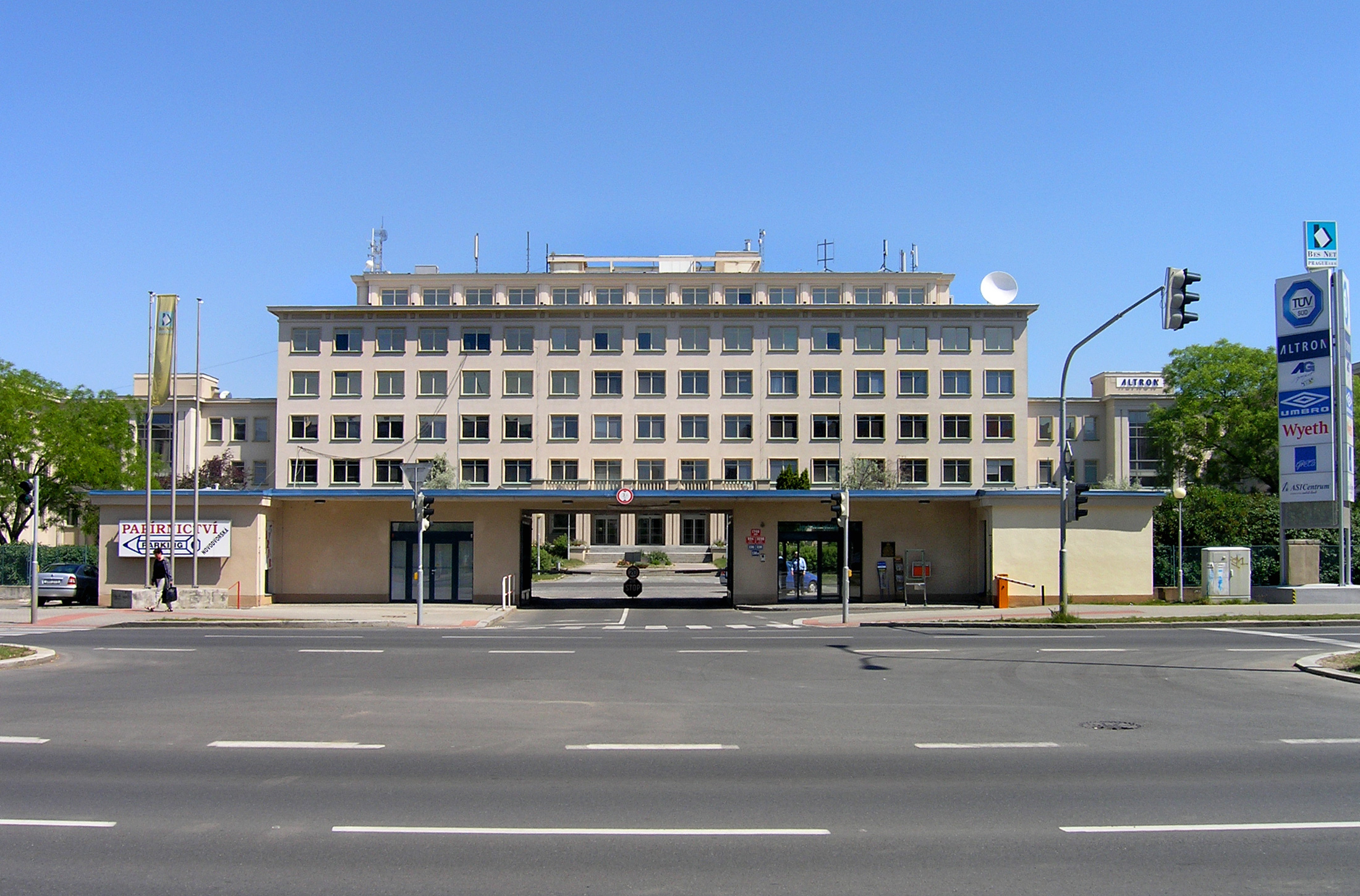 Office houses at Novodvorská housing estate, Prague